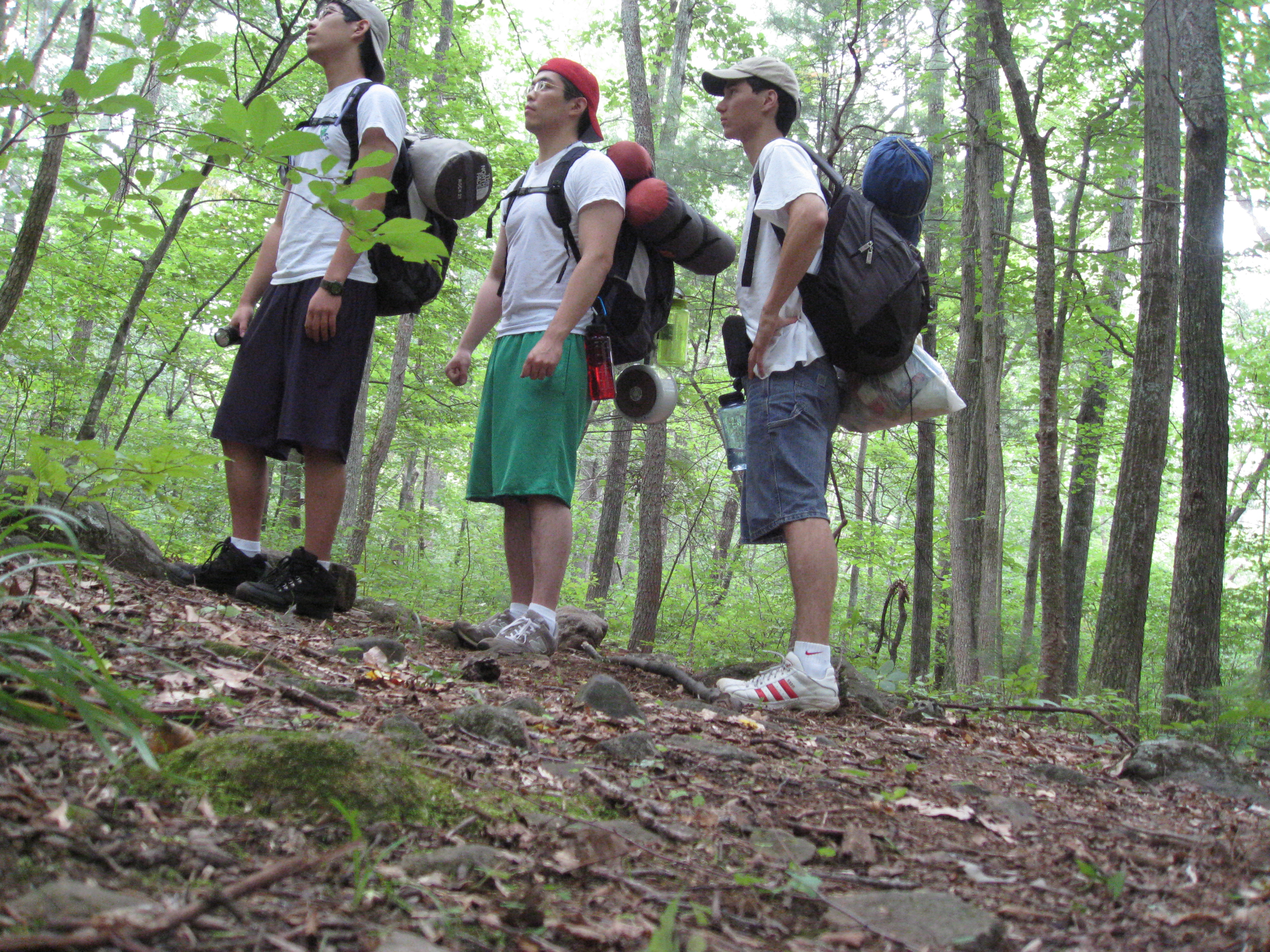 Backpackers in Shenandoah National Park.